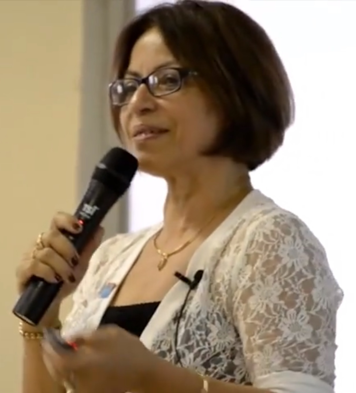 PGQu - Biodiversity & Chemistry: Our Life our Future - Vanderlan da Silva Bolzani Lecture for the post-graduate program in chemistry of the Federal University of Rio de Janeiro.